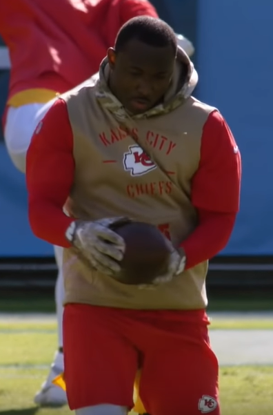 LeSean McCoy 2019. Image taken from video Titans Mic'd Up vs. Chiefs (Week 10) | Sounds of the Game ~ 00:29